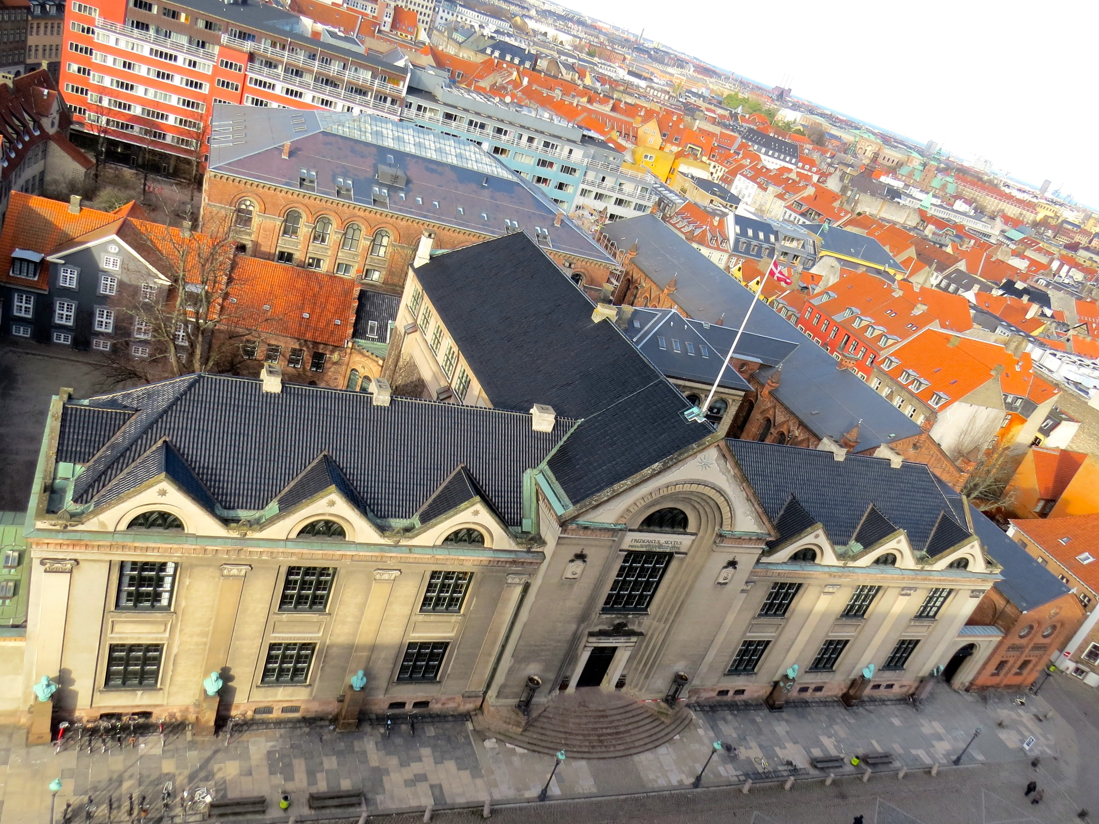 University of Copenhagen, University Main Building, Frue Plads